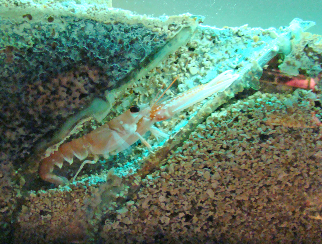 A scampi in it warren.